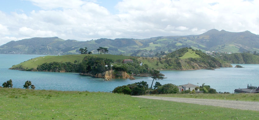 Quarantine Island (also known as Saint Martin Island), New Zealand, seen from above the Portobello Marine Laboratory. The remaining building of the quarantine quarters on Quarantine Island is the two storied building in the centre.